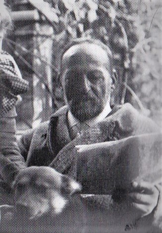 The painter Erich Kips around 1900.